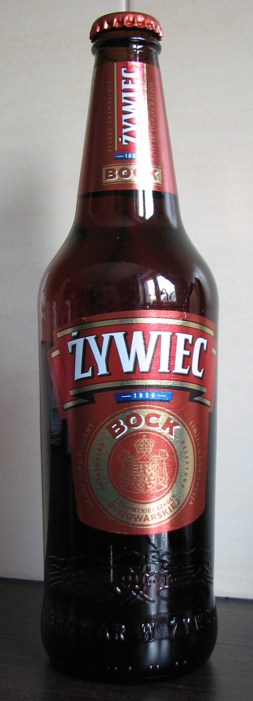 Żywiec Bock beer - 0,5 L bottle from 2011